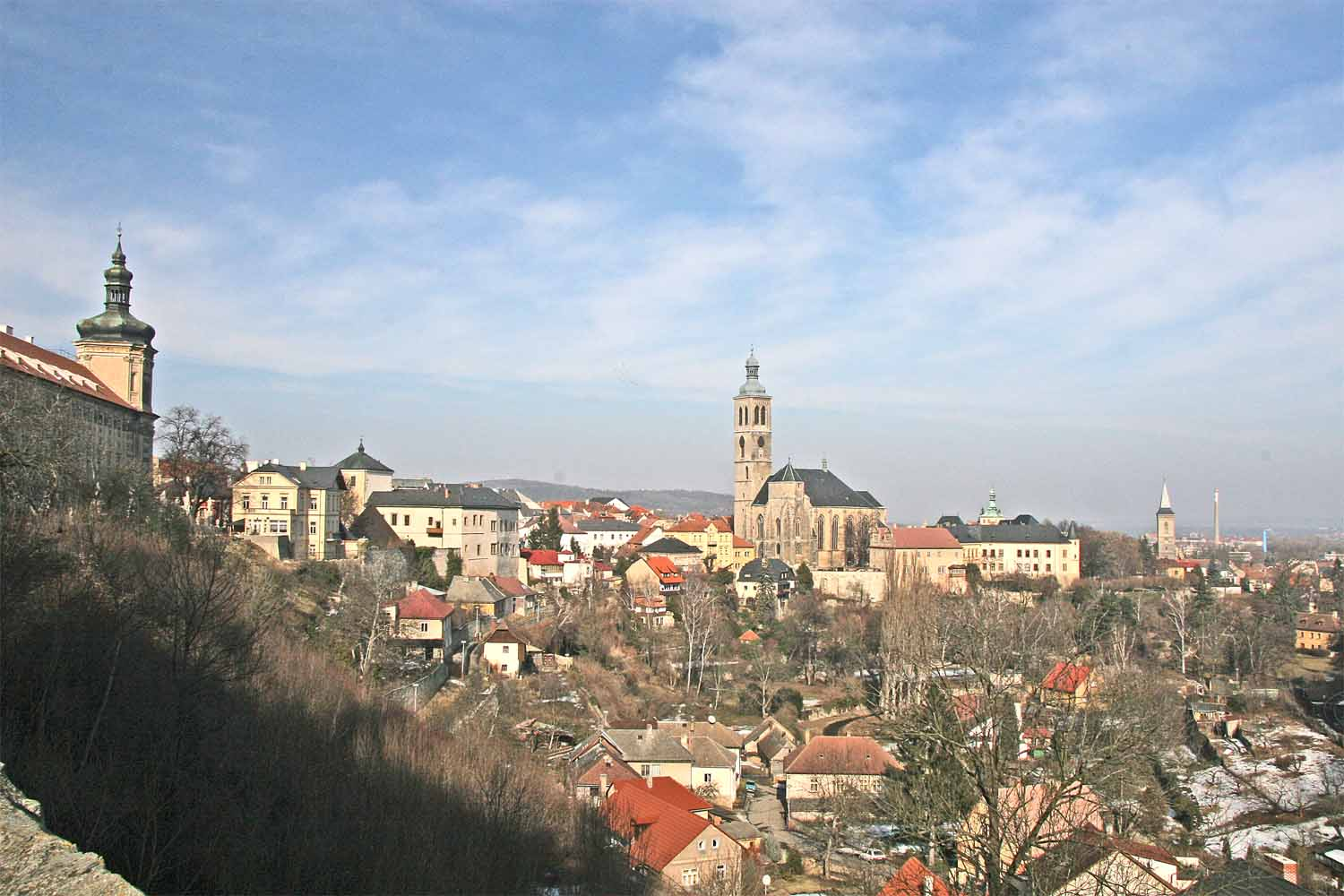 Jesuite College, St. James Church and Italian Court in Kutná Hora, Czech Republic viewed from St. Barbara Cathedral.